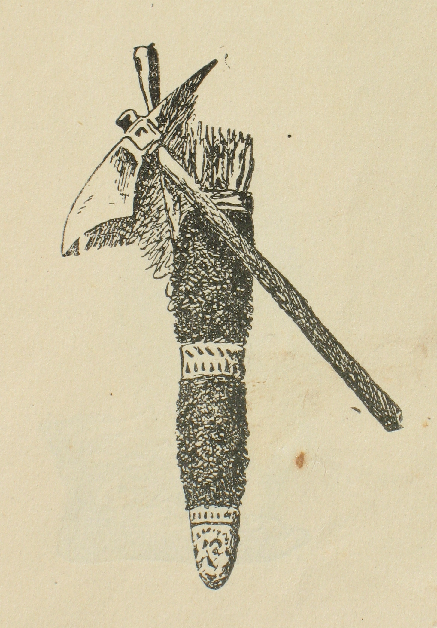 Henry Wadsworth Longfellow, The Song of Hiawatha, Moscow, 1931. Published by OGIZ.